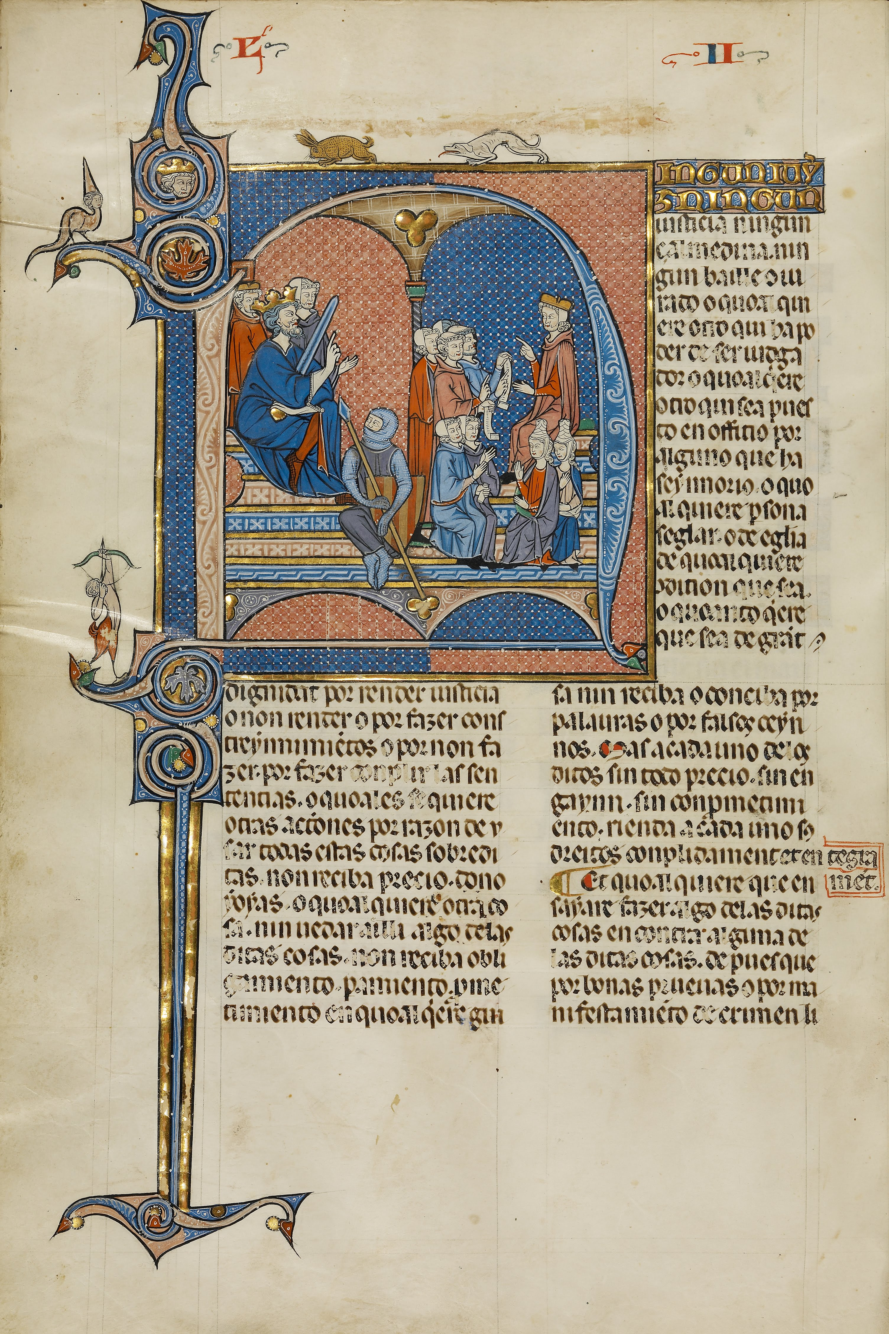 This large initial N introduces the section of King James's law code that warns judges not to accept bribes or to be influenced by hearsay; their decisions should be based on the facts of each case alone. A column divides the interior of the initial into two scenes, each with its own distinctly colored and patterned background. On the left the king, who is slightly larger than the other figures, gestures as if he were watching over the court of law depicted on the right to ensure that its proceedings are carried out correctly. The impressive sword he holds affirms the authority of his laws while the presence of one of his knights threatens punishment to lawbreakers. Across the space and facing him, two lawyers with their clients behind stand before a judge arguing a case. Scrolls like the ones held by the lawyers in this scene were sometimes used to signify the spoken word in medieval art. In the space below, additional lawyers counsel two women.